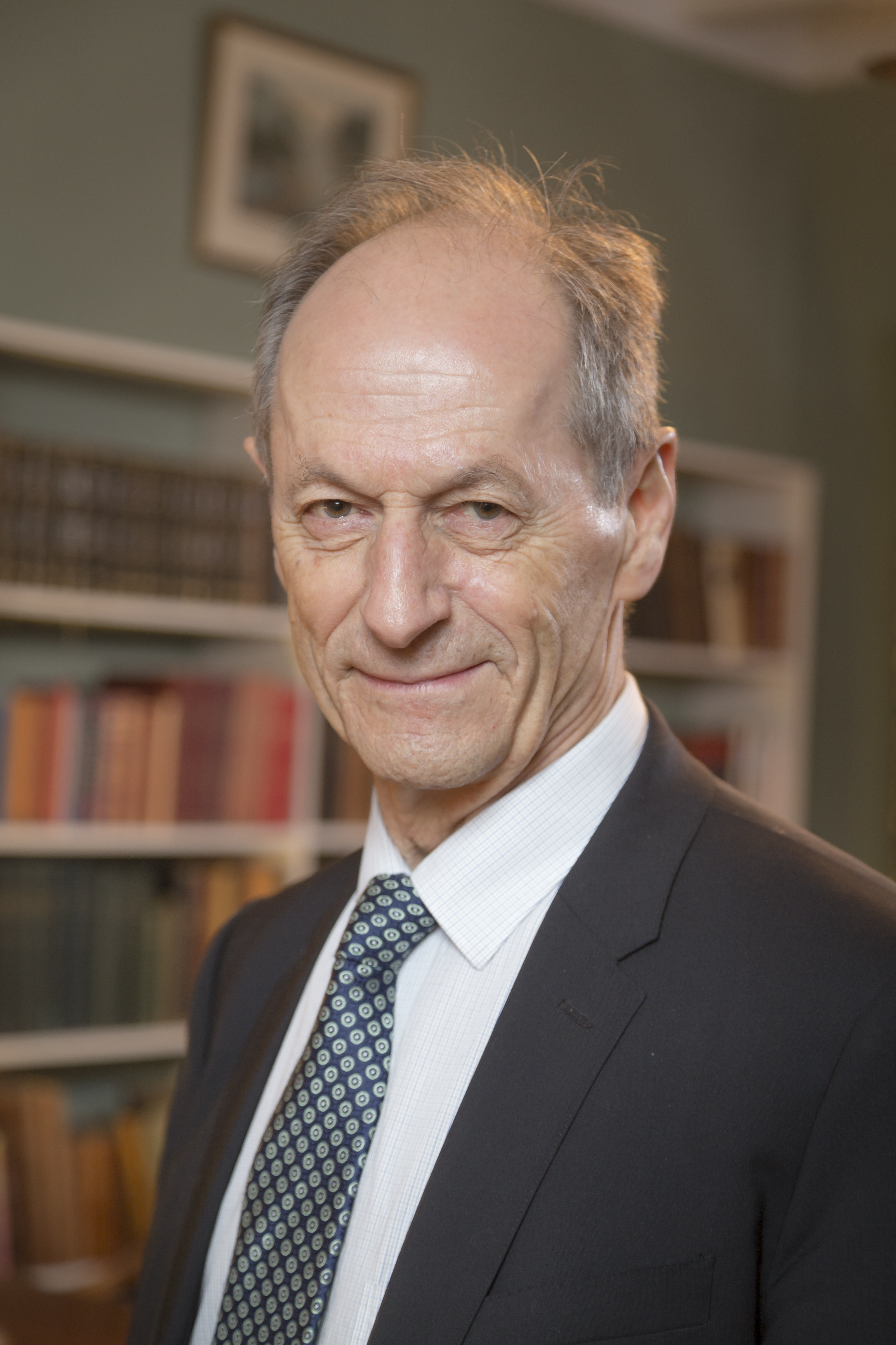 The English scientist Michael Marmot, photographed in 2017, on the occasion when he was awarded an honorary doctorate at the Norwegian University of Science and Technology (NTNU)